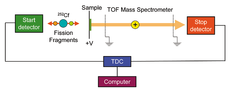 Plasma desorption mass spectrometry instrument